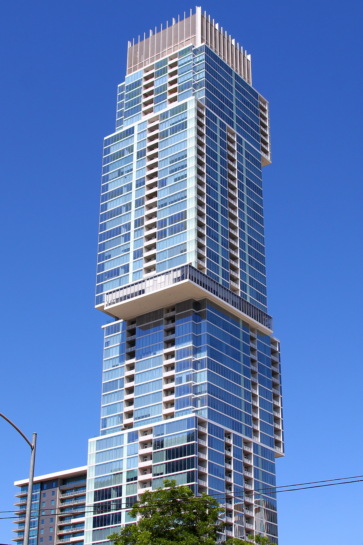 The Independent in Austin, Texas United States.